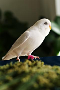 Melopsittacus undulatus, male, albino (maybe leucistic, eyes are not red)